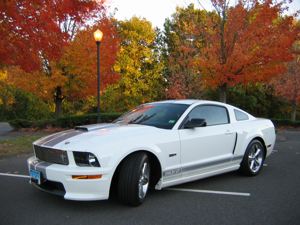 Autumn Shelby GT